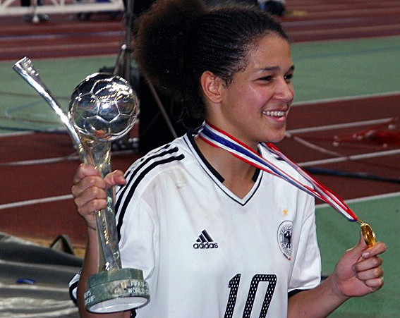 Célia Okoyino da Mbabi mit Medaille und Pokal der "FIFA U-19 Women's World Championship" im Ratchamangala Stadion Bangkok, Thailand. Cropped from Image:041127 128.jpg